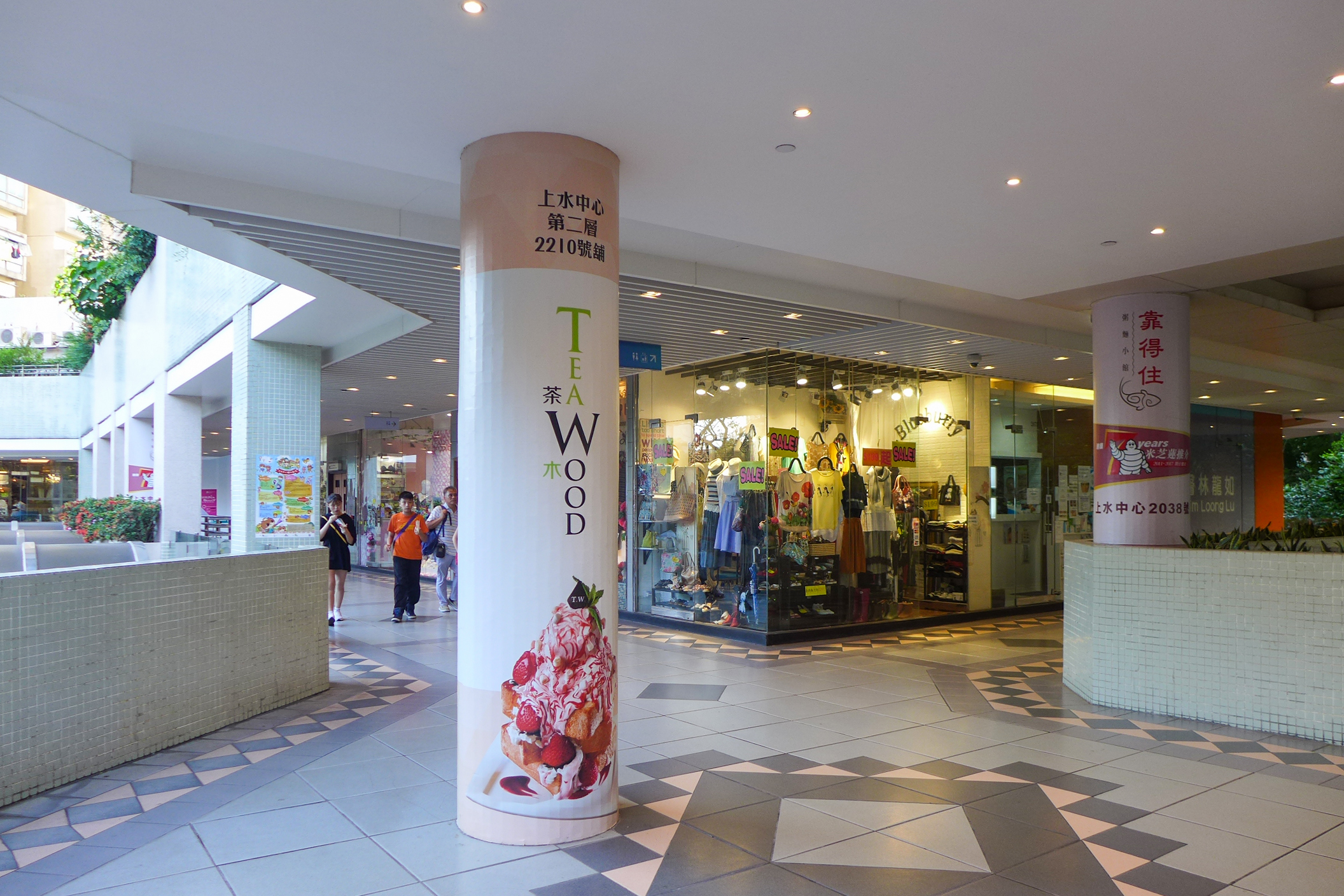 Sheung Shui Centre Outside access